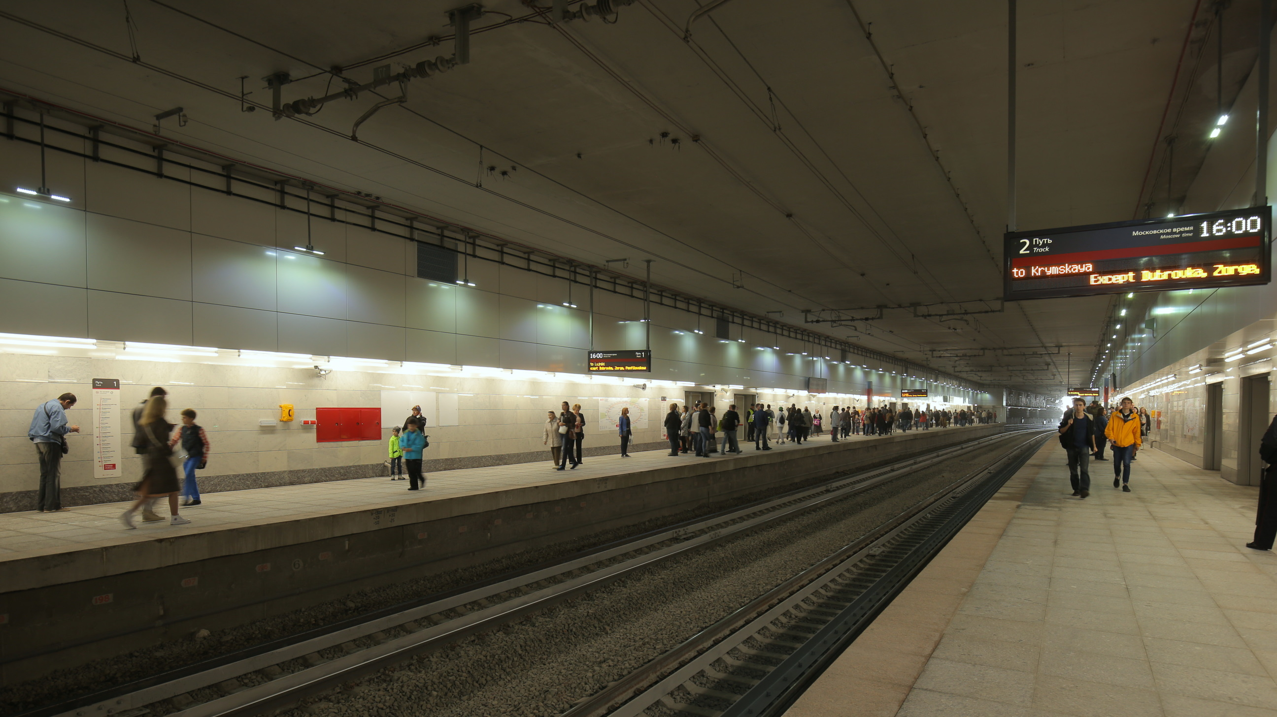 "Ploschad' Gagarina" (Gagarin Square) station of Moscow Railway Ring